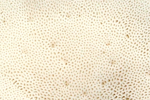 Piptoporus betulinus from Commanster, Belgium. The determination of the species shown in this picture has been verified.